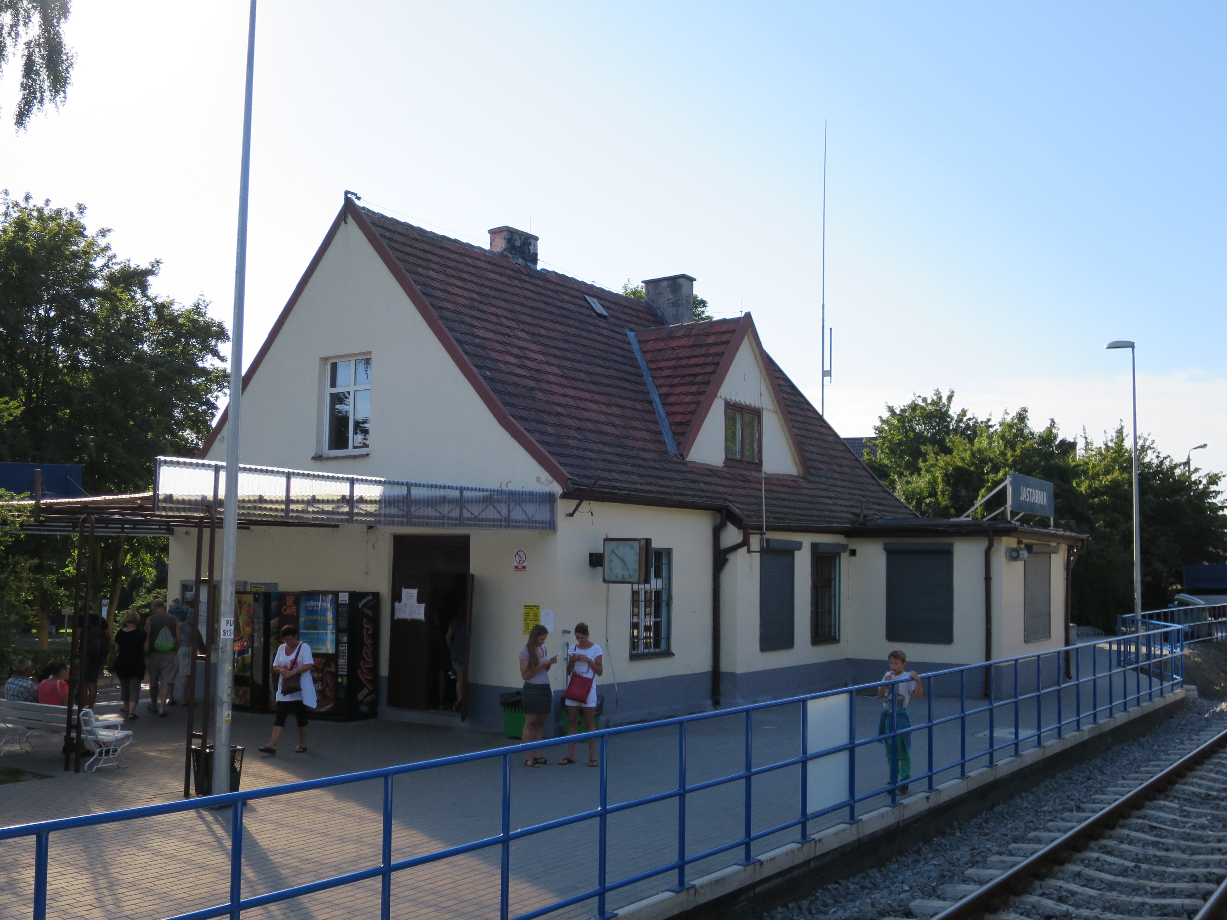 Jastarnia This photo was taken during Railway Wikiexpedition 2015 set up by Wikimedia Polska Association in cooperation with Fundacja Grupy PKP. You can see all photographs in category Wikiekspedycja kolejowa 2015.